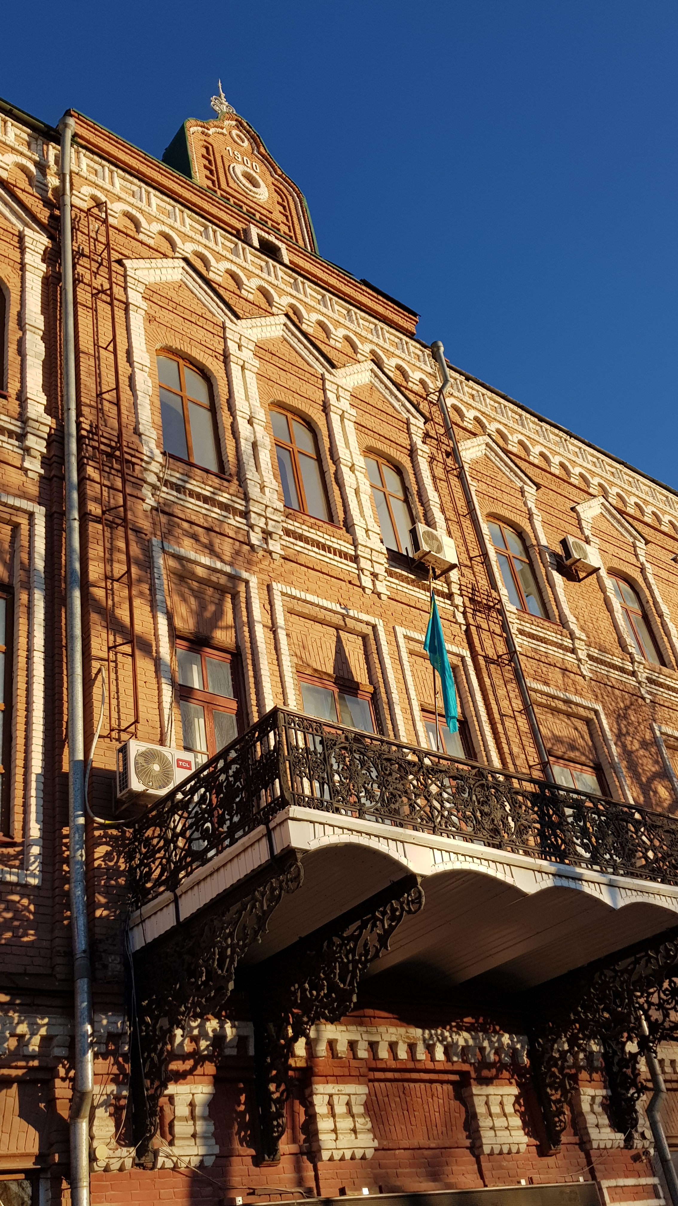 The central part of the facade of the Karev House in Uralsk